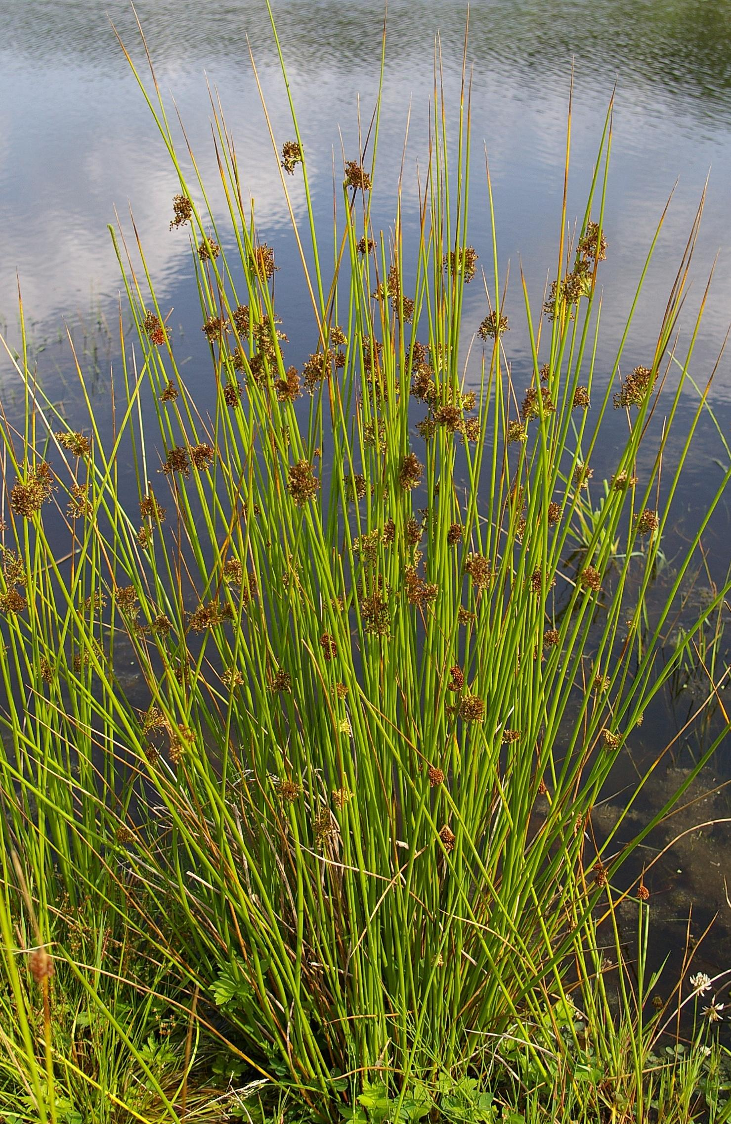 Flowering Common or Soft Rush (Juncus effusus) at the banks of a pond.